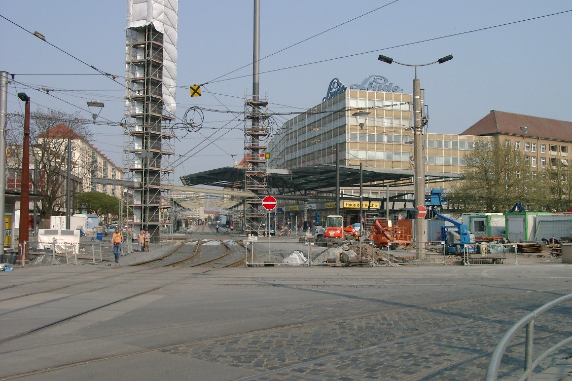 Dresden (Germany) Postplatz public works